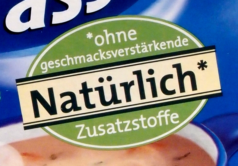 German-language inscription on a package of instant soup indicating that the product is “without flavour-enhancing additives” (ohne geschmacksverstärkende Zusatzstoffe). According to the list of ingredients on the package (not shown), it does contain yeast extract. The image is intended to illustrate how food seasoned with yeast extract may be labelled under German law. The product shown is Heisse Tasse Champignon-Creme by Erasco (a brand of Campbell's Germany).